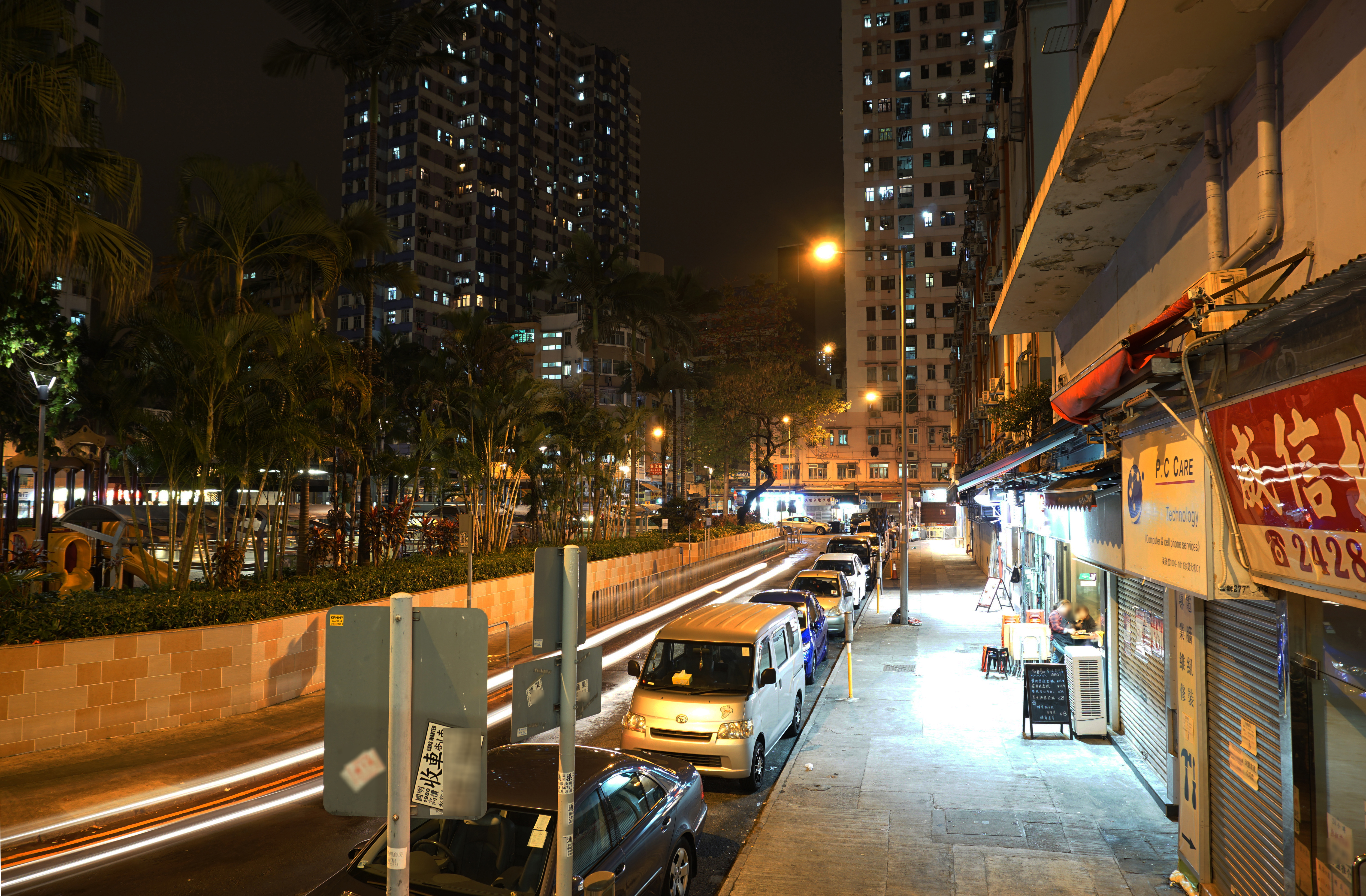 Kwong Fai Circuit in Kwai Hing, Hong Kong.